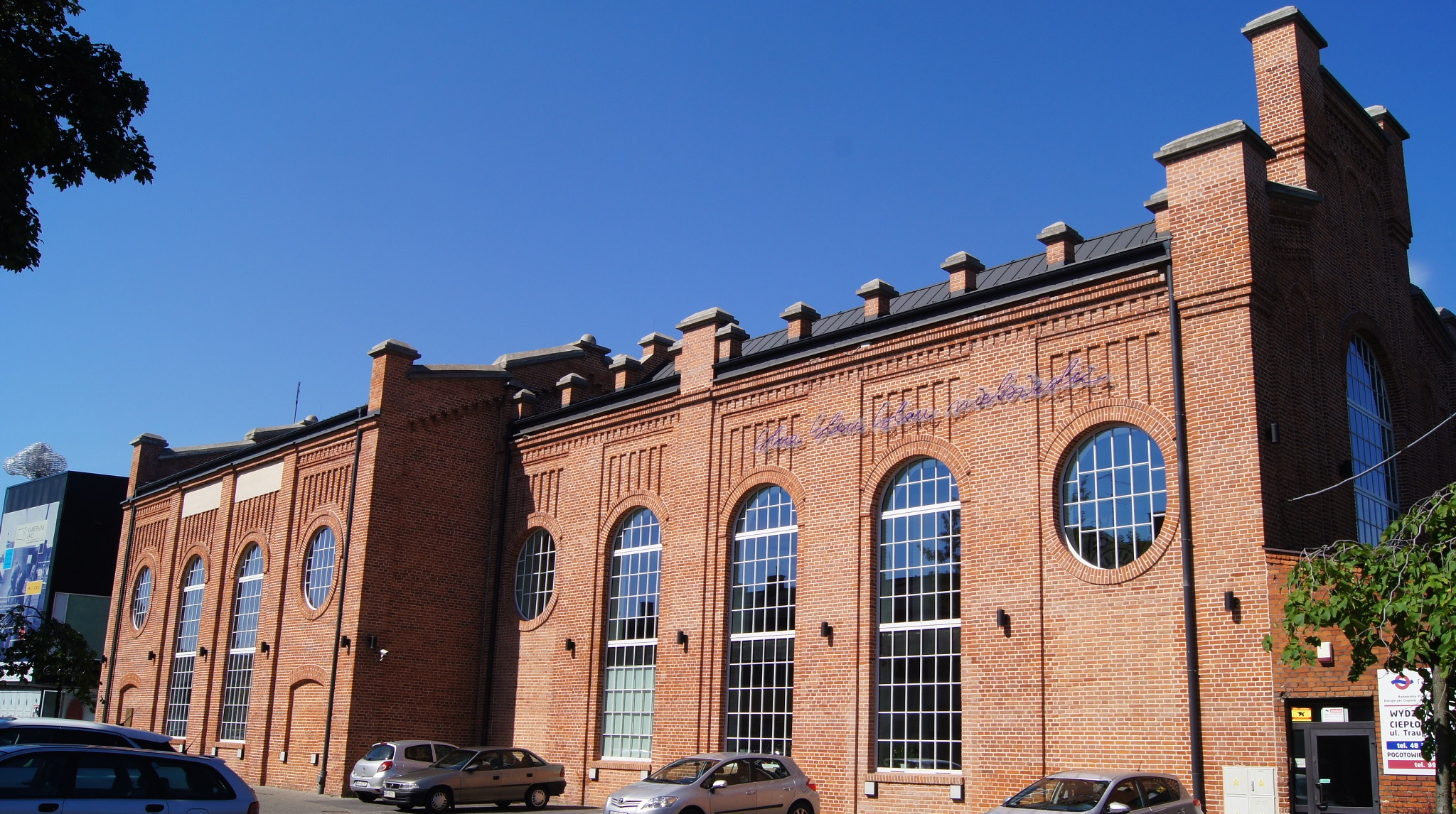 Centre for contemporary art MCSW "Elektrownia" in Radom, Poland